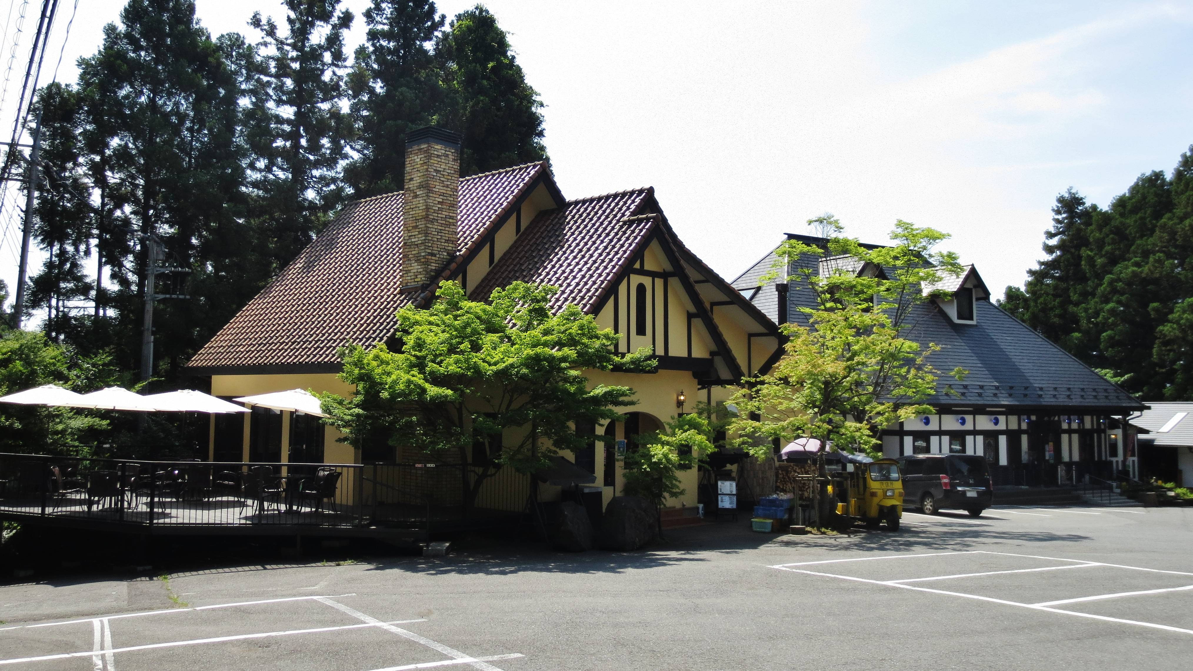 Chikyuya.